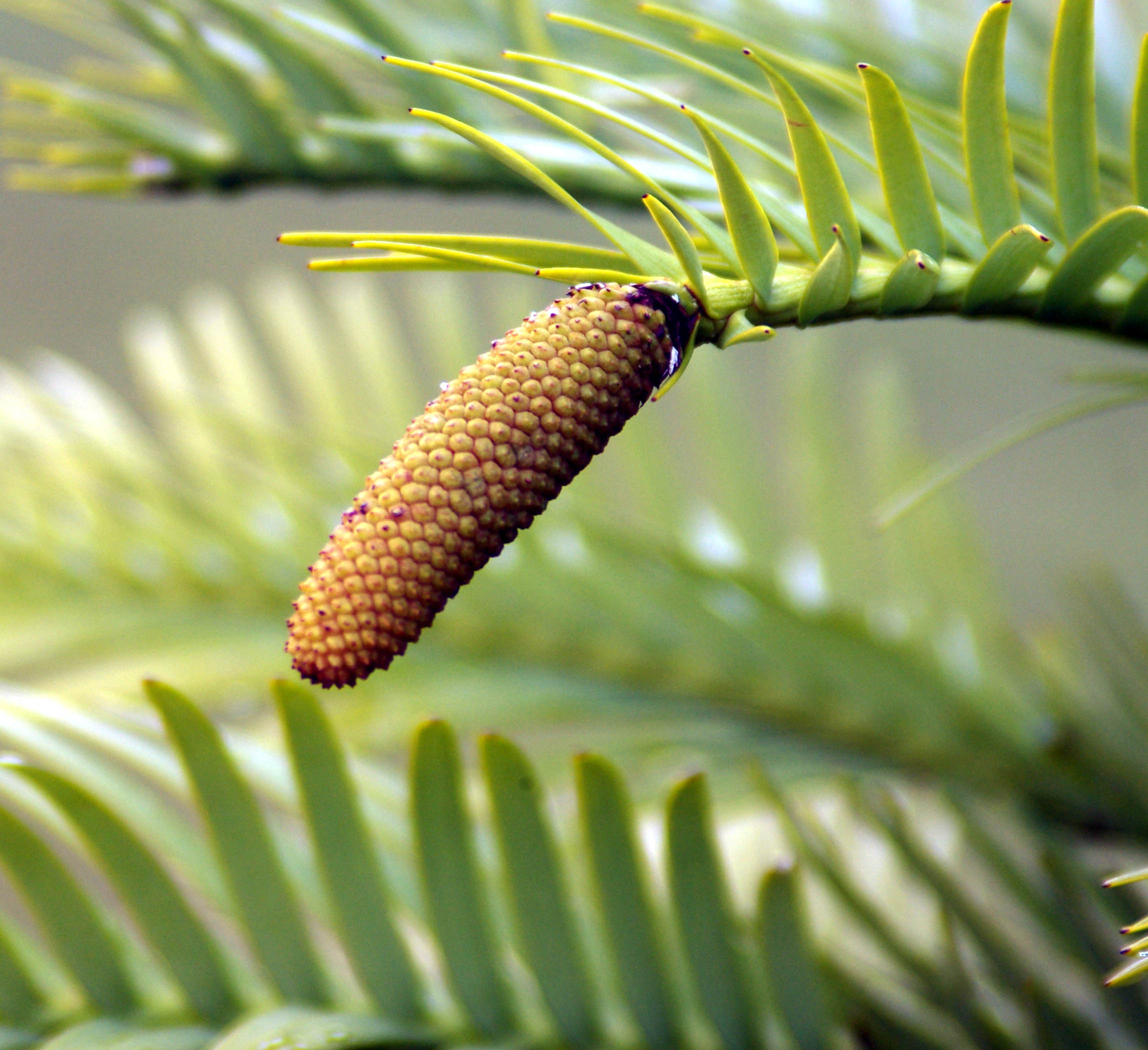 Wollemia nobilis shoot with young pollen cone growing in North Wales